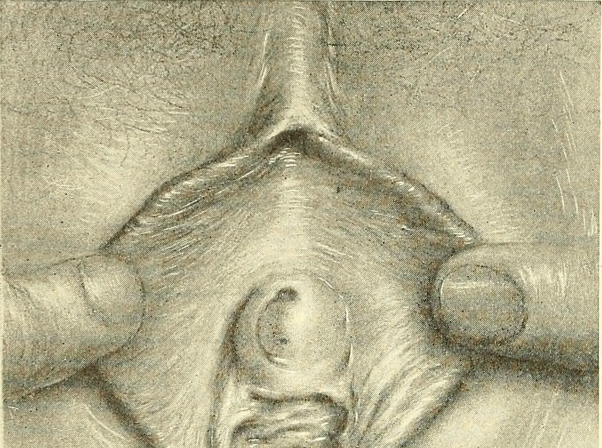 Gonorrheal abscess at the urethra Title: Operative gynecology : Year: 1906 (1900s) Authors: Kelly, Howard A. (Howard Atwood), 1858-1943 Subjects: Gynecology Gynecology Gynecologic Surgical Procedures Publisher: New York and London : D. Appleton and company Text Appearing Before Image: urethritis the symptoms are a persistent, intense burn-ing, frequent urination with pain, and sometimes a discharge of blood. Vulvitisand vaginitis may be associated with them. In the subacute form the discom-forts may be transitory and not serious. It is important in all cases to examine the urethral secretion microscopicallyfor gonococci, and confirmatory evidence will be gained if the presence of 384 AFFECTIONS OF THE URETHRA AND BEADDER. gonococci in the cervical secretions can be demonstrated. Should they be found in the cervix and not in the urethra the evidence would still be in favor of a gonorrheal urethritis. The urethroscopic examination must be made in every case where the purpose of the examiner is not only to know the nature of the morbid condi-tion, but its gradeand its extent aswell. The diseasedconditions are foundalmost exclusivelyin the mucous andsubmucous tissues,and are more apt tobe localized in theanterior or posteriorportions of the ure-thra than in themiddle. Text Appearing After Image: '